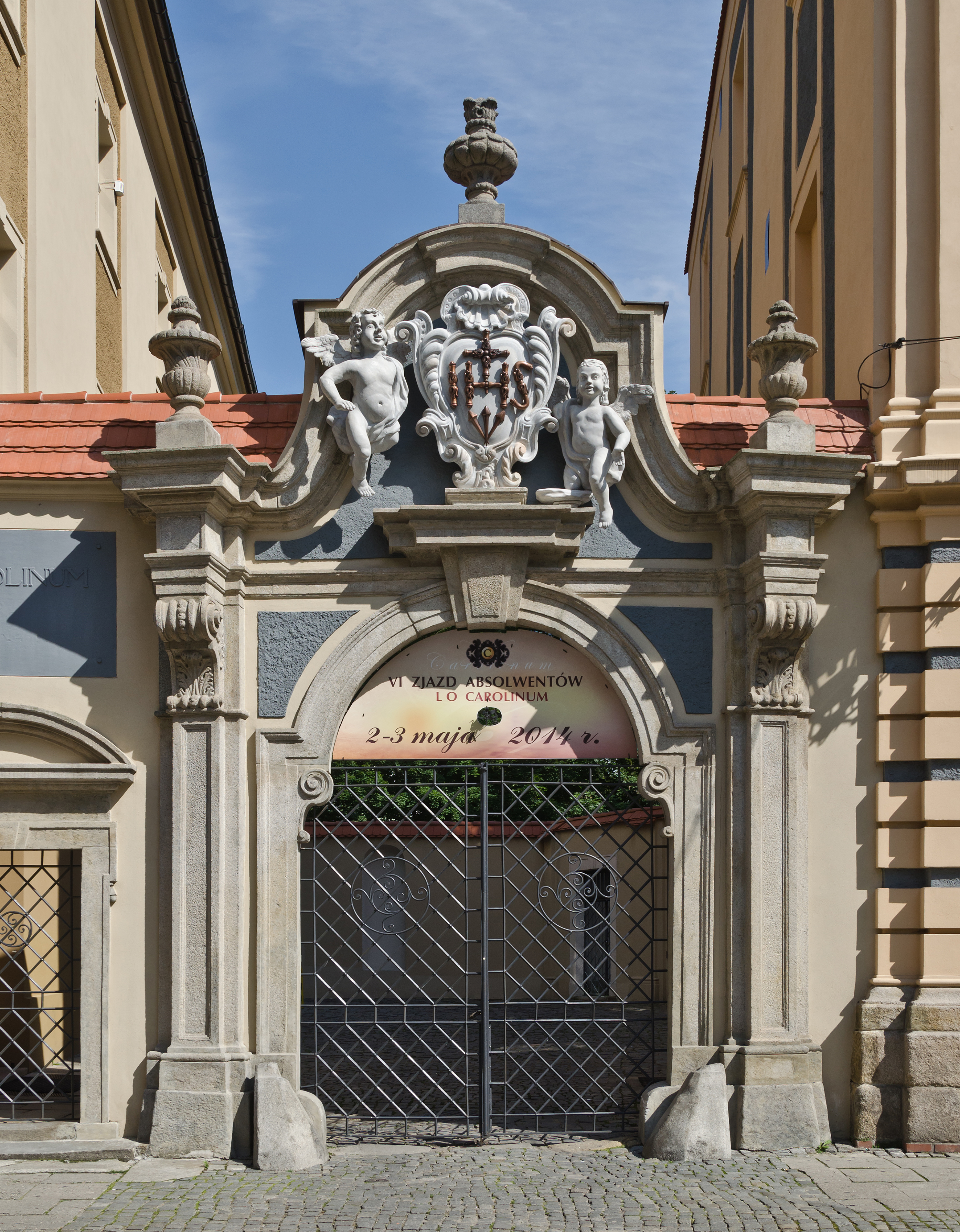 Former Jesuit Monastery in Nysa